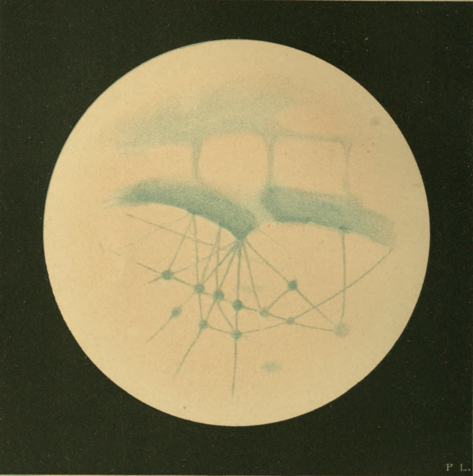 Plate 1 from File:Mars - Lowell.djvu